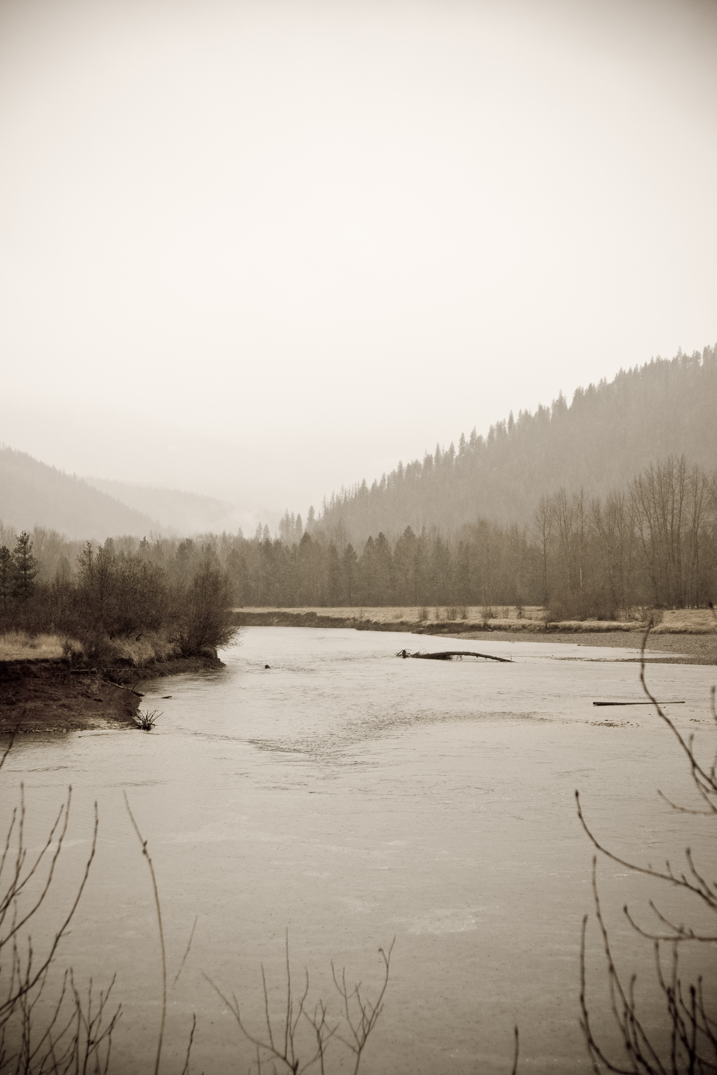 St. Joe River near Cataldo Mission, Idaho